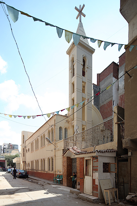 Church of Abu Qir and John, Abu Qir, Egypt